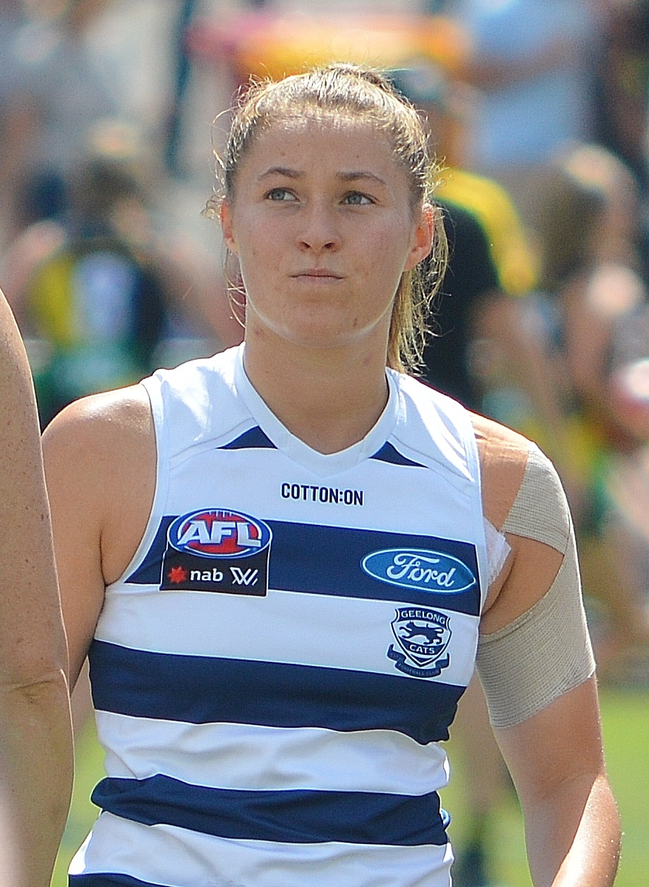 Olivia Purcell with Geelong in the round 4 2020 AFLW match against Richmond at Queen Elizabeth Oval in Bendigo.